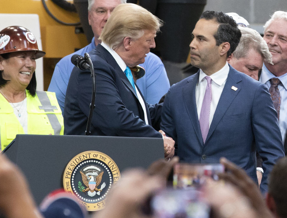 President Donald J. Trump is welcomed by Texas Land Commissioner George P. Bush to the International Union of Operating Engineers International Training and Education Center Wednesday, April 10, 2019, in Crosby, Texas. (Official White House Photo by Joyce N. Boghosian)